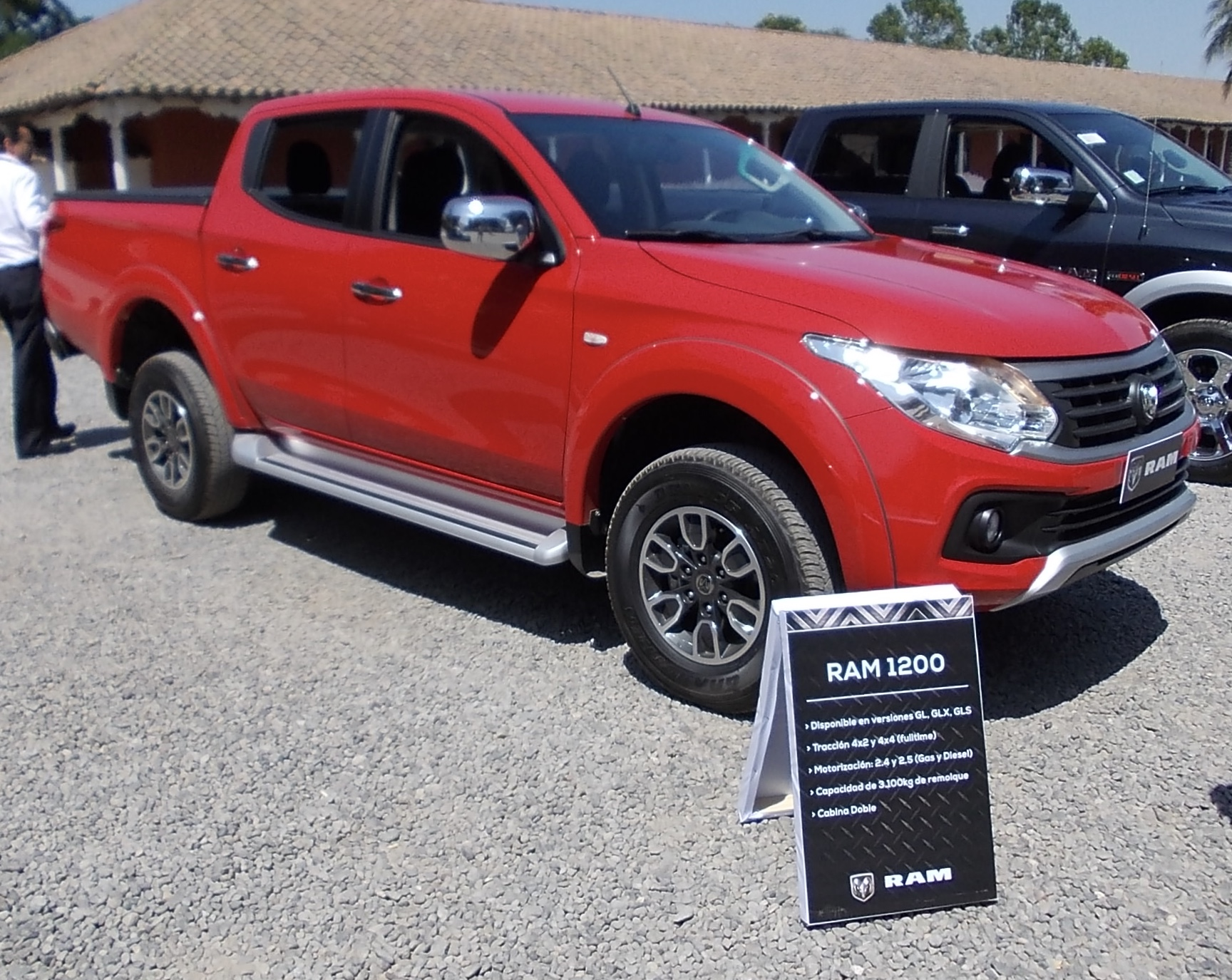 The RAM 1200 pick-up in Chile, rebadged version of the Fiat Fullback.